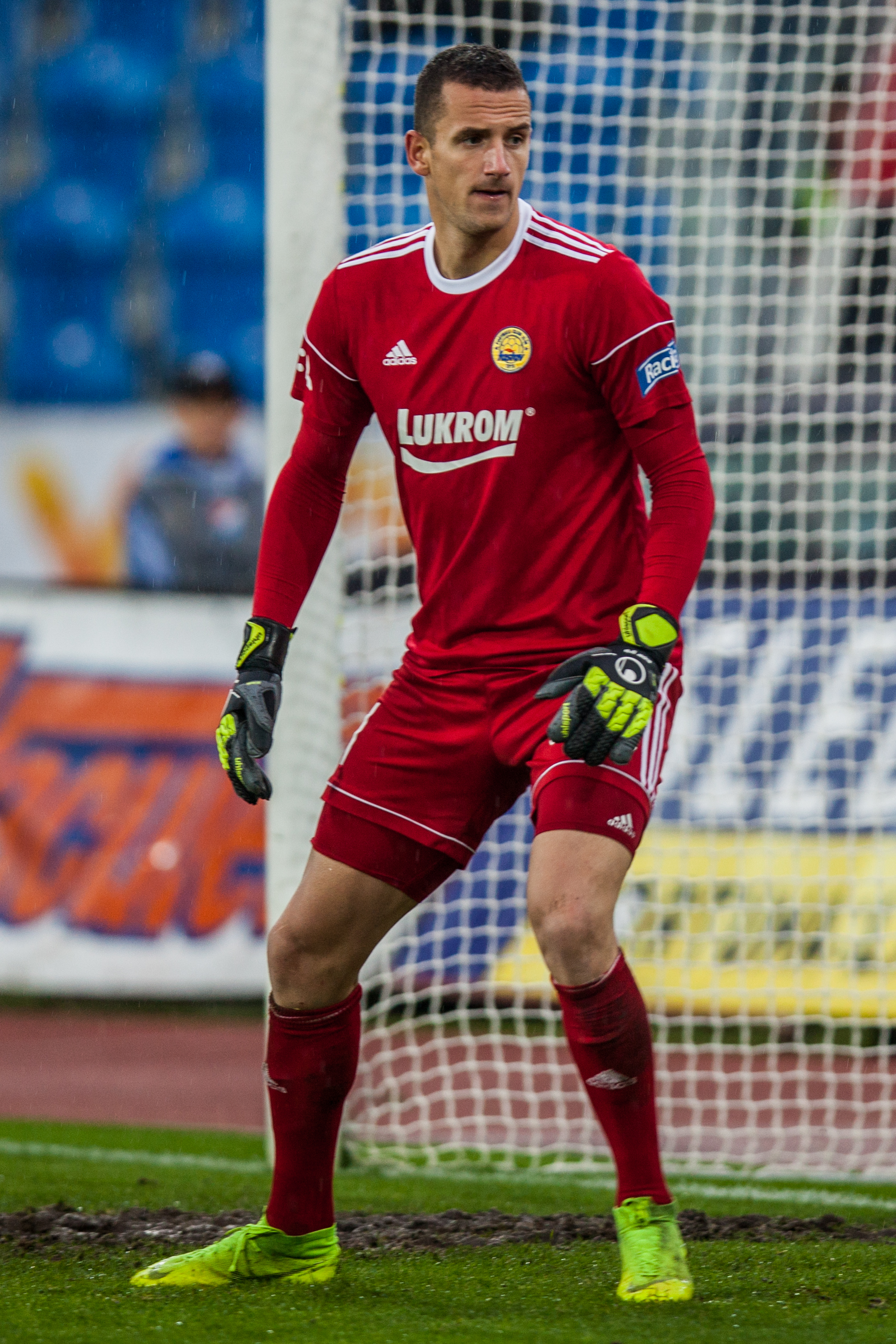 Matěj Rakovan in a Czech First League (Fortuna:Liga) match between FC Baník Ostrava and FC Fastav Zlín (4:0), 5 October 2019, Městský stadion Ostrava, Ostrava-Vítkovice, Ostrava-City District, Moravian-Silesian Region, Czechia Personality rights warningAlthough this work is freely licensed or in the public domain, the person(s) shown may have rights that legally restrict certain re-uses unless those depicted consent to such uses. In these cases, a model release or other evidence of consent could protect you from infringement claims.